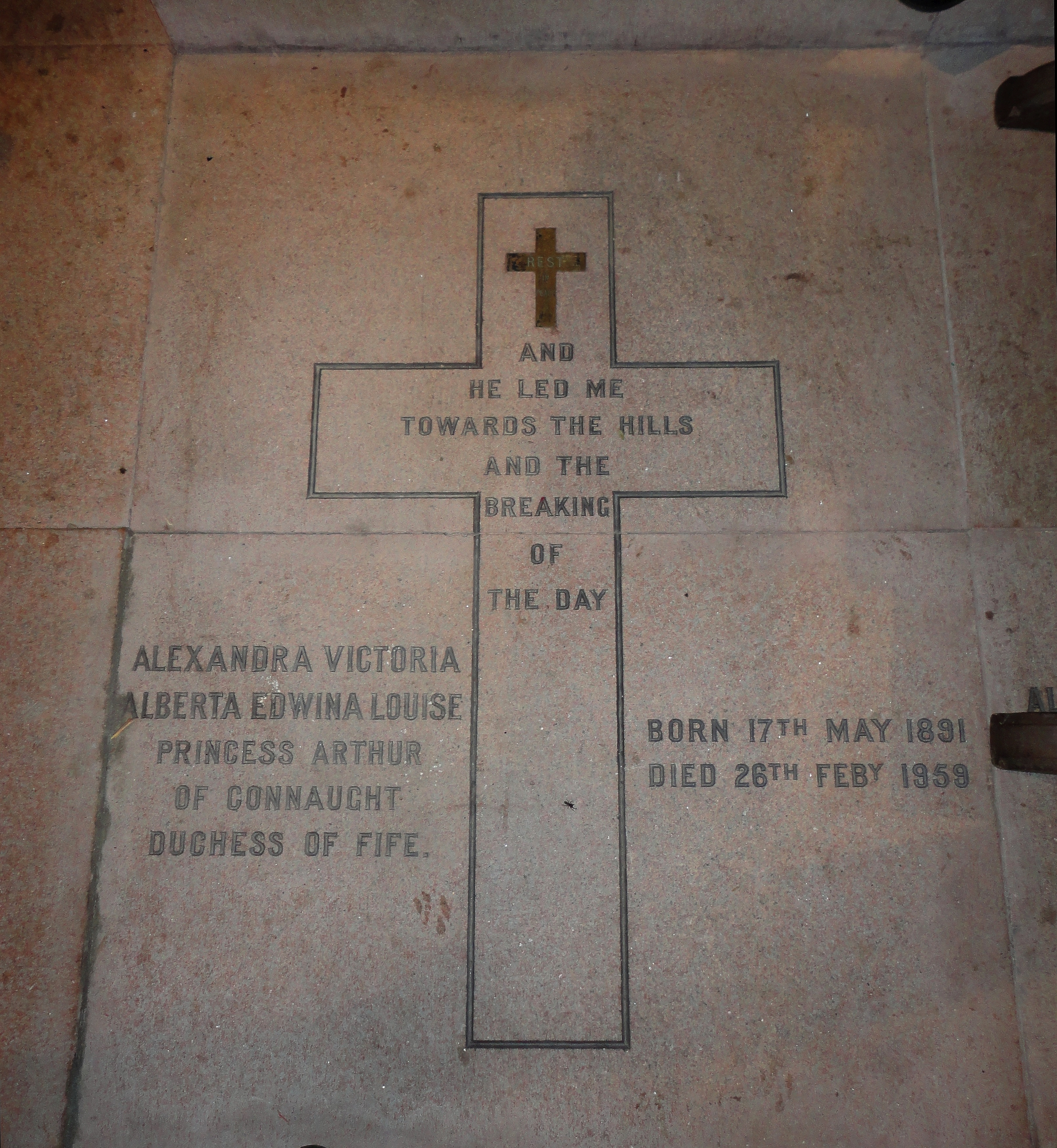 Braemar, Mar Lodge Estate, St Ninian's Chapel - floor slab marking the grave of the 2nd Duchess of Fife (1891–1959)